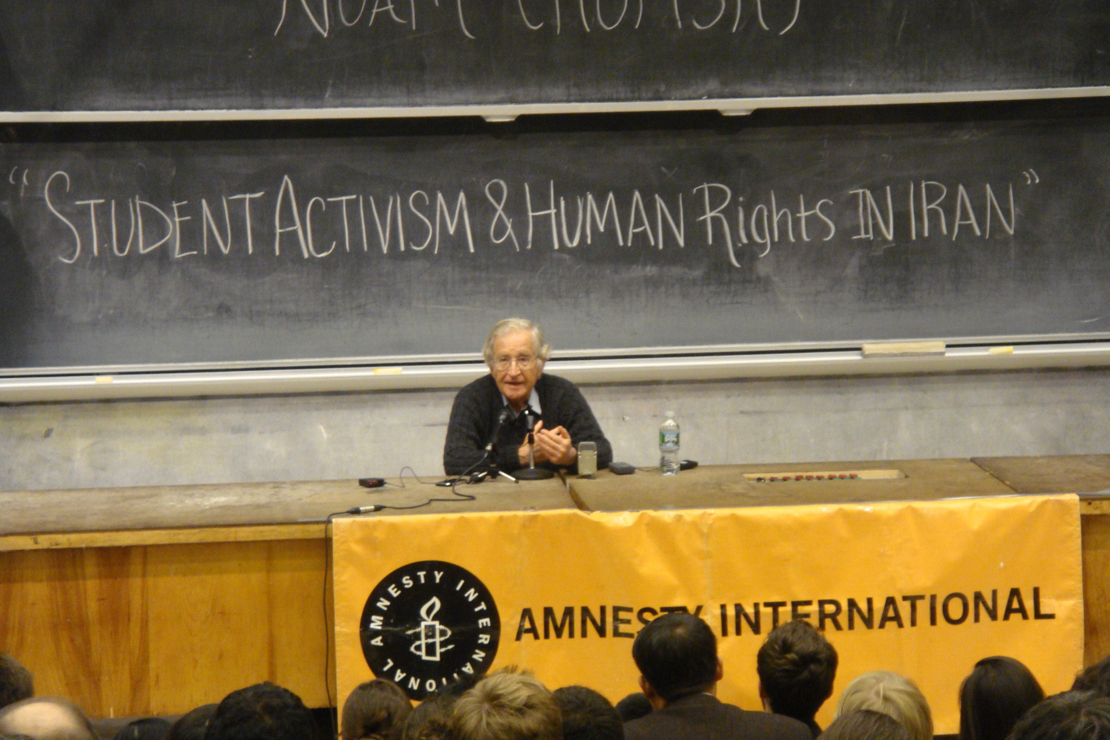 Activist of Human Rights in Iran